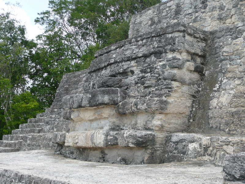 Archaelogical Zone of Calakmul, in Campeche state, Mexico. Mask at the base of Structure 2.